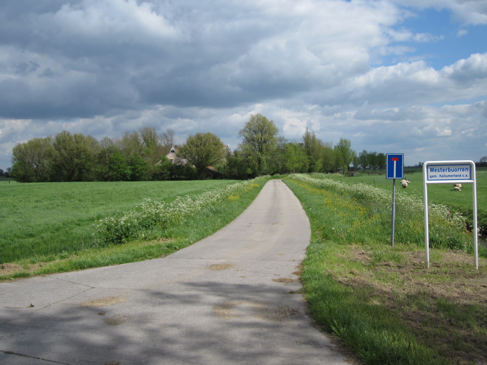 Hamlet Westerburen near village Westergeest, county Friesland, The Netherlands.